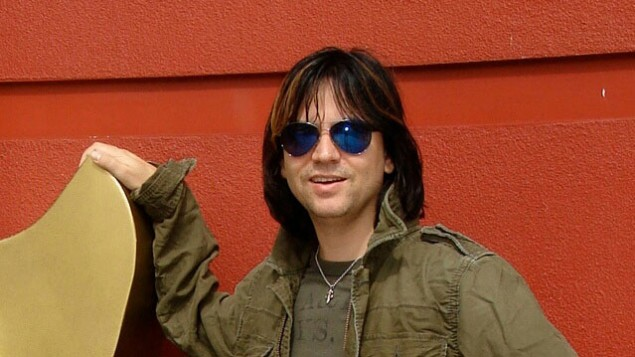 Photo of Jaye Muller, aka Count Jaye in LAS 2006.